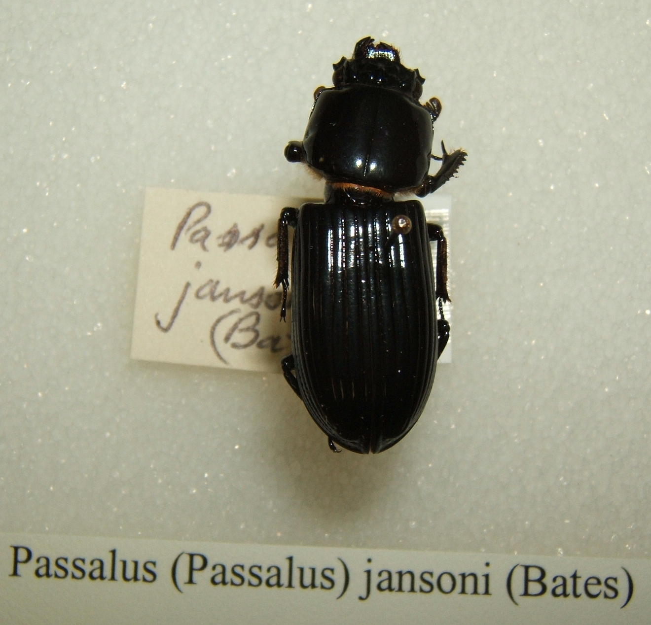 Passalus jansoni adult taken by Shawn Hanrahan at the Texas A&M University Insect Collection in College Station, Texas.